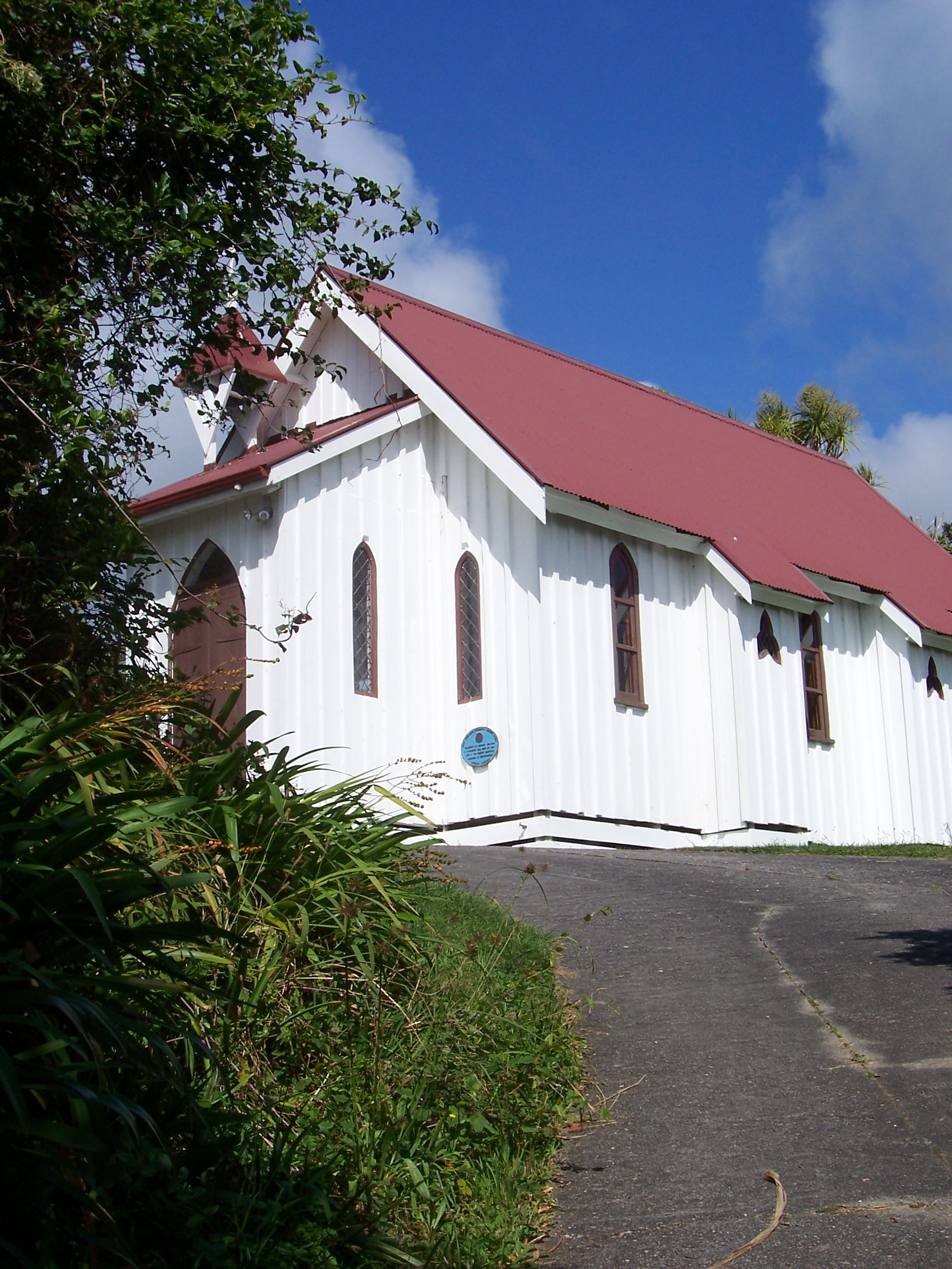 St Cuthbert's, Collingwood, is registered by the New Zealand Historic Places Trust as a Category I structure, with registration number 1626.